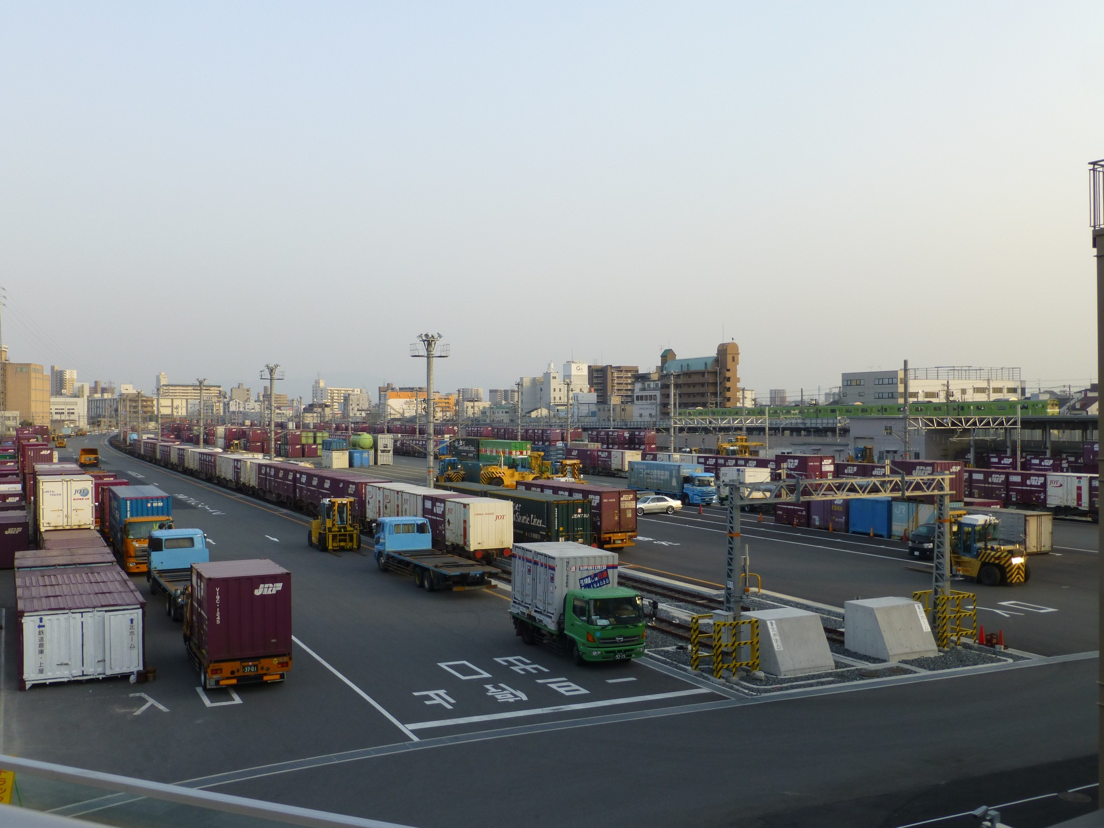 Container platforms of Kudara Freight Terminal